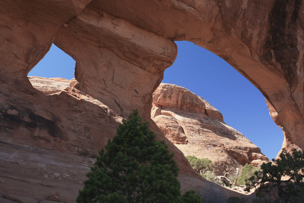 Arches National Park, Partition Arch, Utah, USA